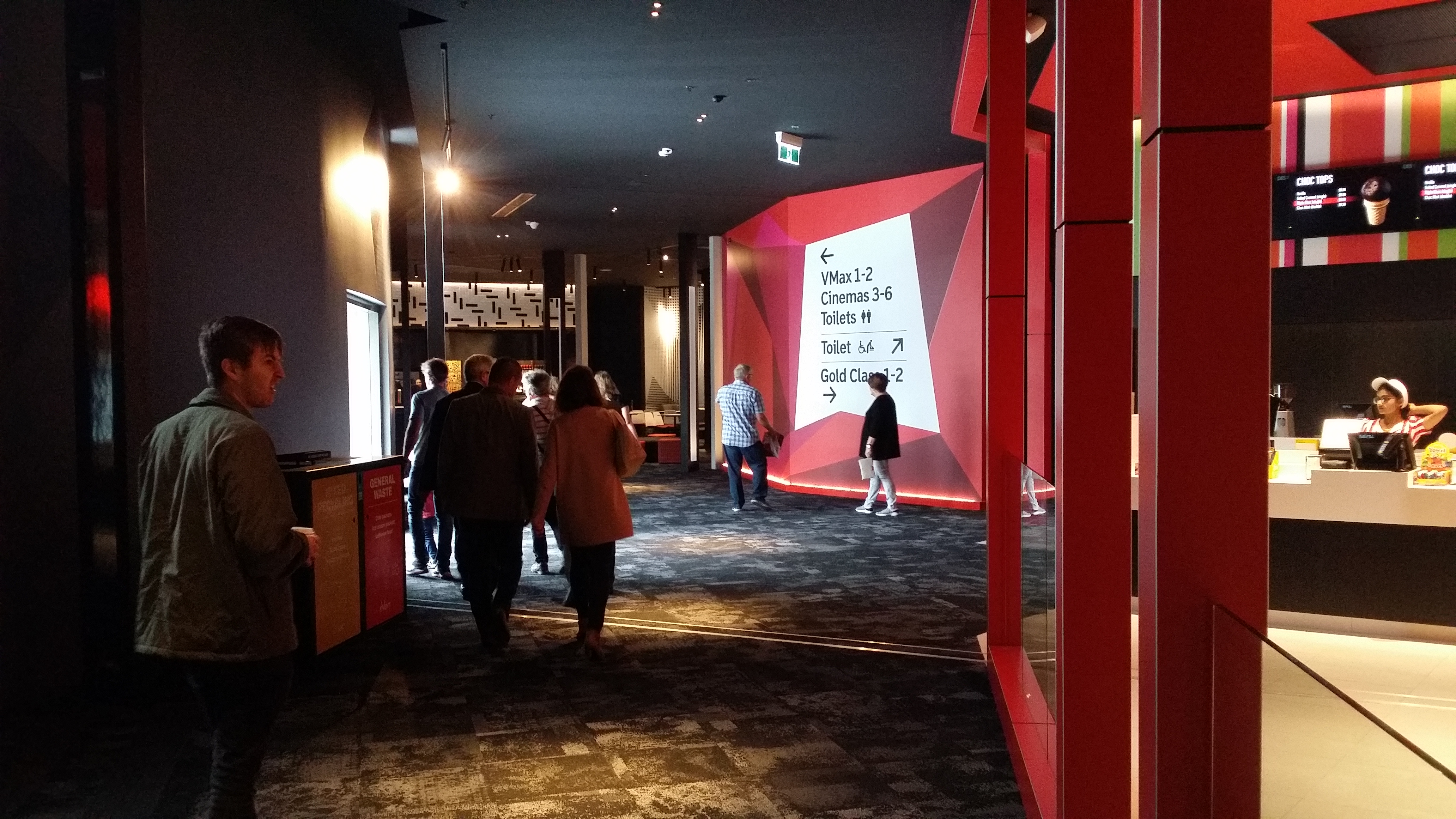 Event Cinemas Whitford on opening day